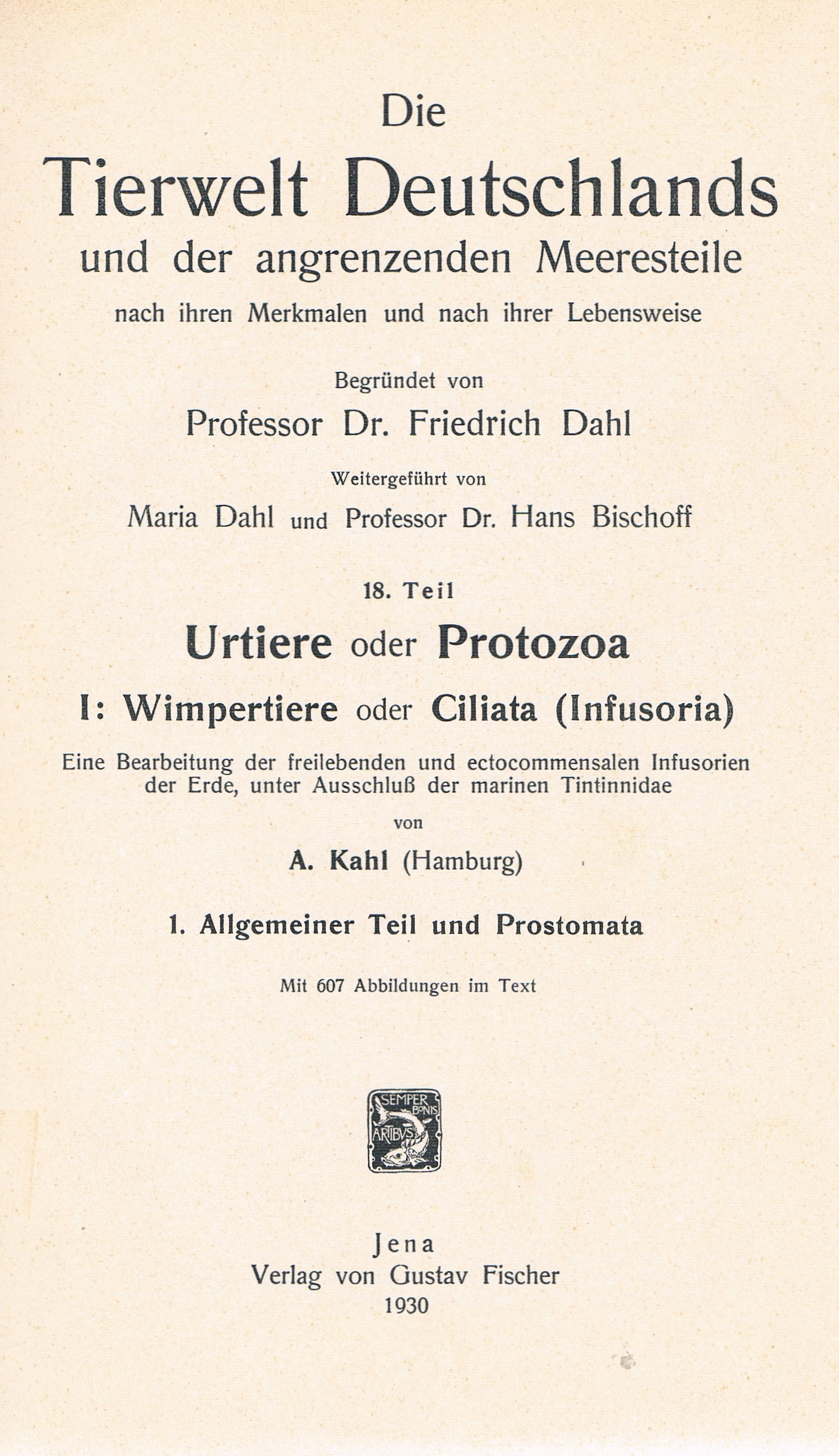 Title page of Alfred Kahl's magnum opus, Urtiere oder Protozoa I: Wimpertiere oder Ciliata, 1930-35.